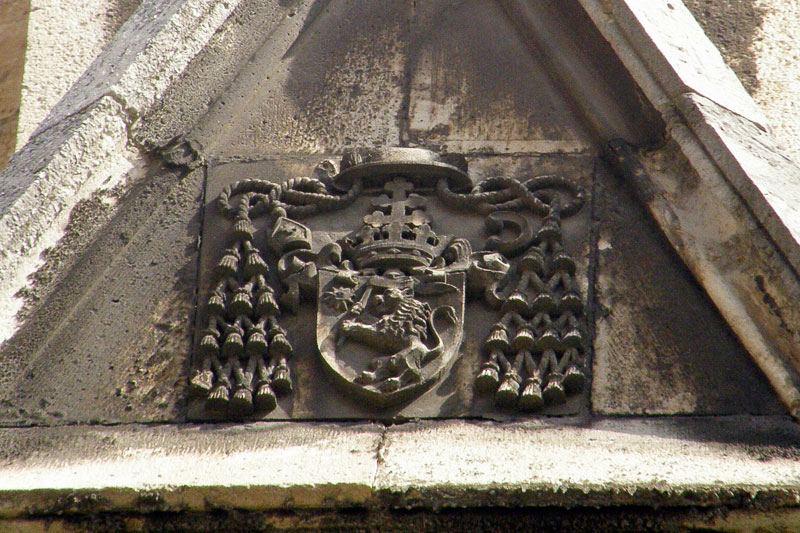 Coat of arm, archibishop of Zagreb Josip Mihalović